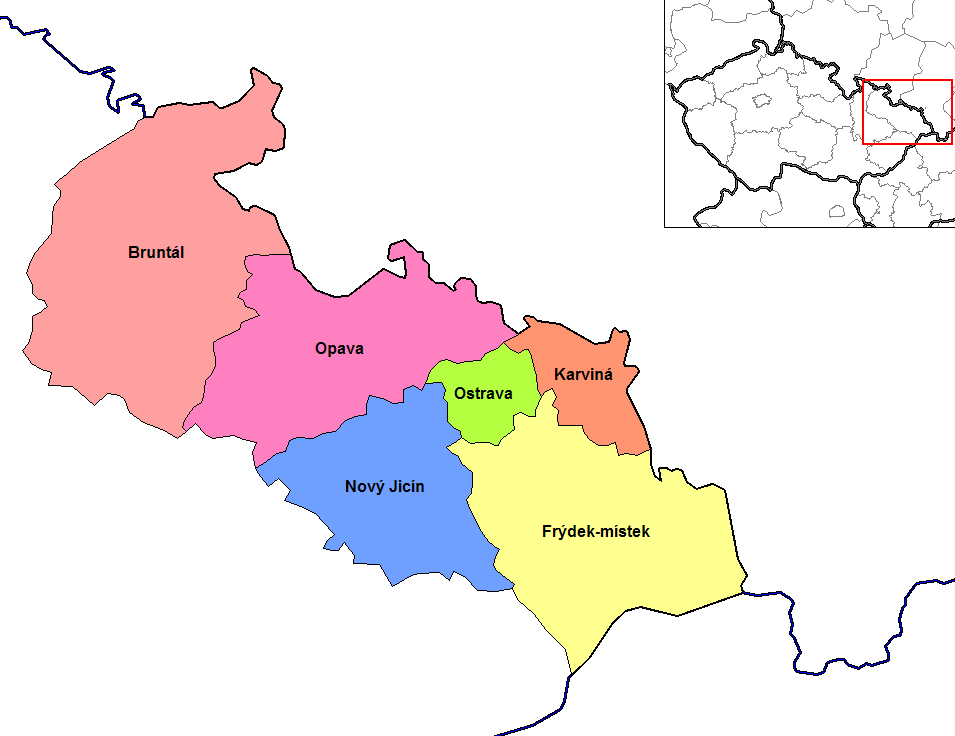 Map of the districts of Moravia-Silesia region of the Czech Republic. Created by Rarelibra 15:13, 2 January 2007 (UTC) for public domain use, using MapInfo Professional v8.5 and various mapping resources.